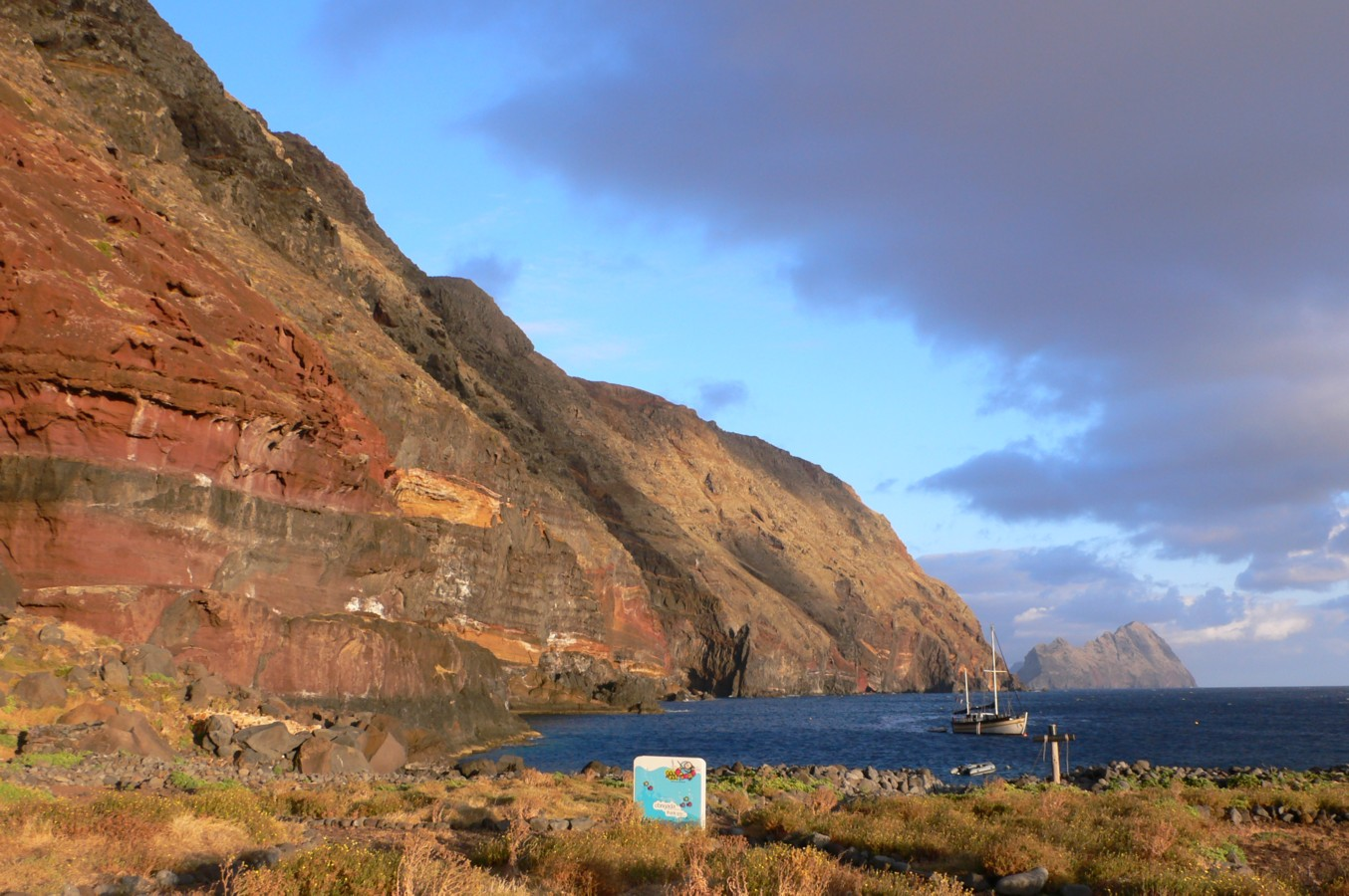 view from the nature reserve base on Gran Deserta, Bugio Island is in the distance